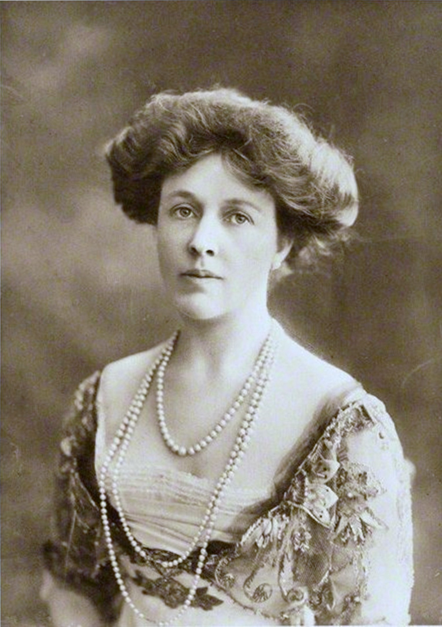 Lady Monica Lilly Bullough was born in Christchurch, New Zealand on 7 April 1869. Her mother died the following day. She is the eldest daughter of French aristocrat Gerard Gastavus Ducarel (1838-1916), fourth Marquis de la Pasture and Léontine Standish (1843-1869). Monique marries first Charles Edward Nicholas Charrington on 19 March 1889. From this marriage was born the following year, Dorothea Elizabeth Charrington. This marriage is a failure and the divorce is pronounced on 25 May 1903. A month later, Monique Ducarel de la Pasture married Sir George Bullough (1870-1939), 1st Baronet, on 24 June 1903 at Kinloch Castle, Rum Island. From this second union, was born on 5 November 1906, Hermione Bullough. Monique Ducarel de la Pasture dies in Newmarket, Warren Hill, Suffolk, United Kingdom, on 22 May 1967, at the respectable age of 98 years.